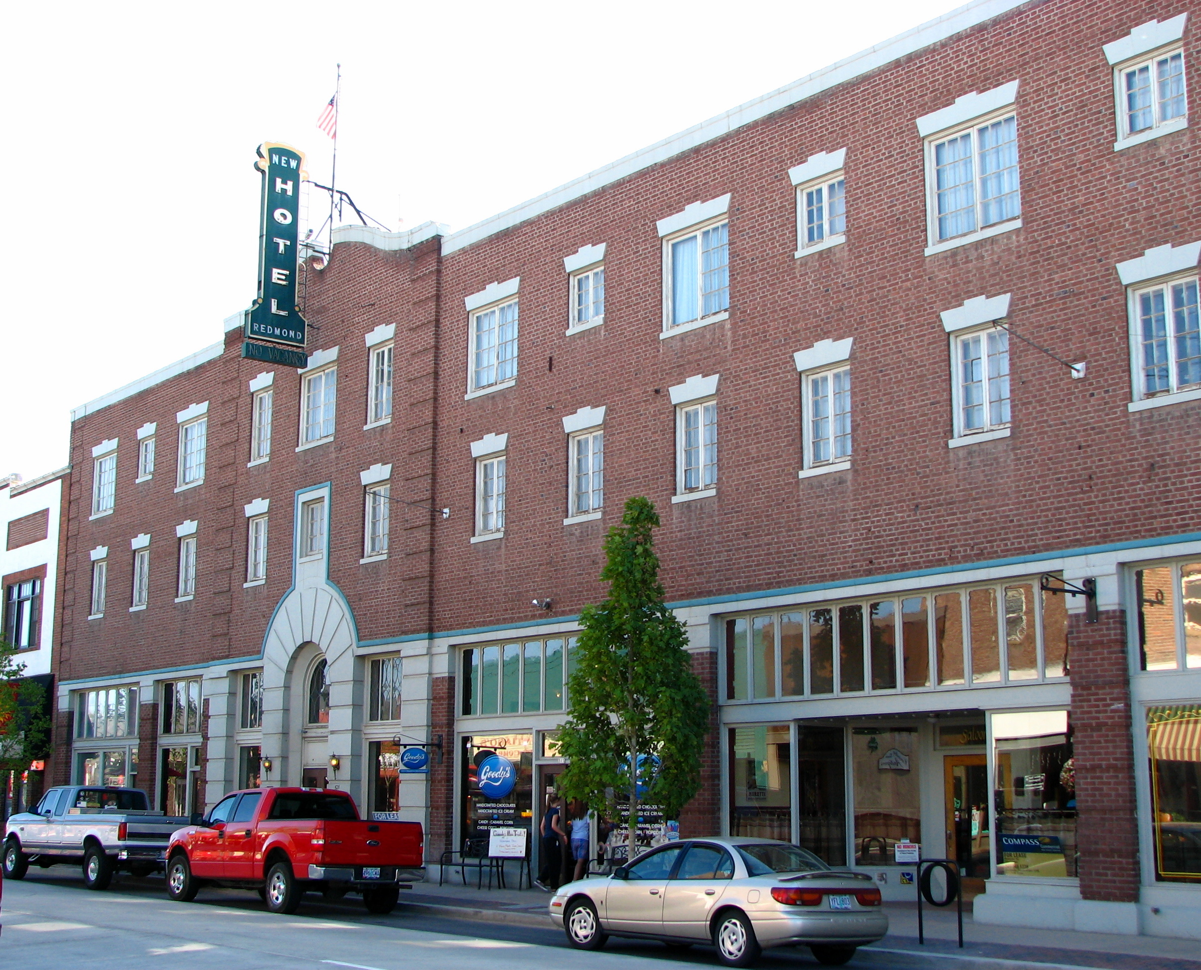 The historic New Redmond Hotel (built 1928), located at 521 South 6th Street in Redmond, Oregon, United States, is listed on the US National Register of Historic Places.